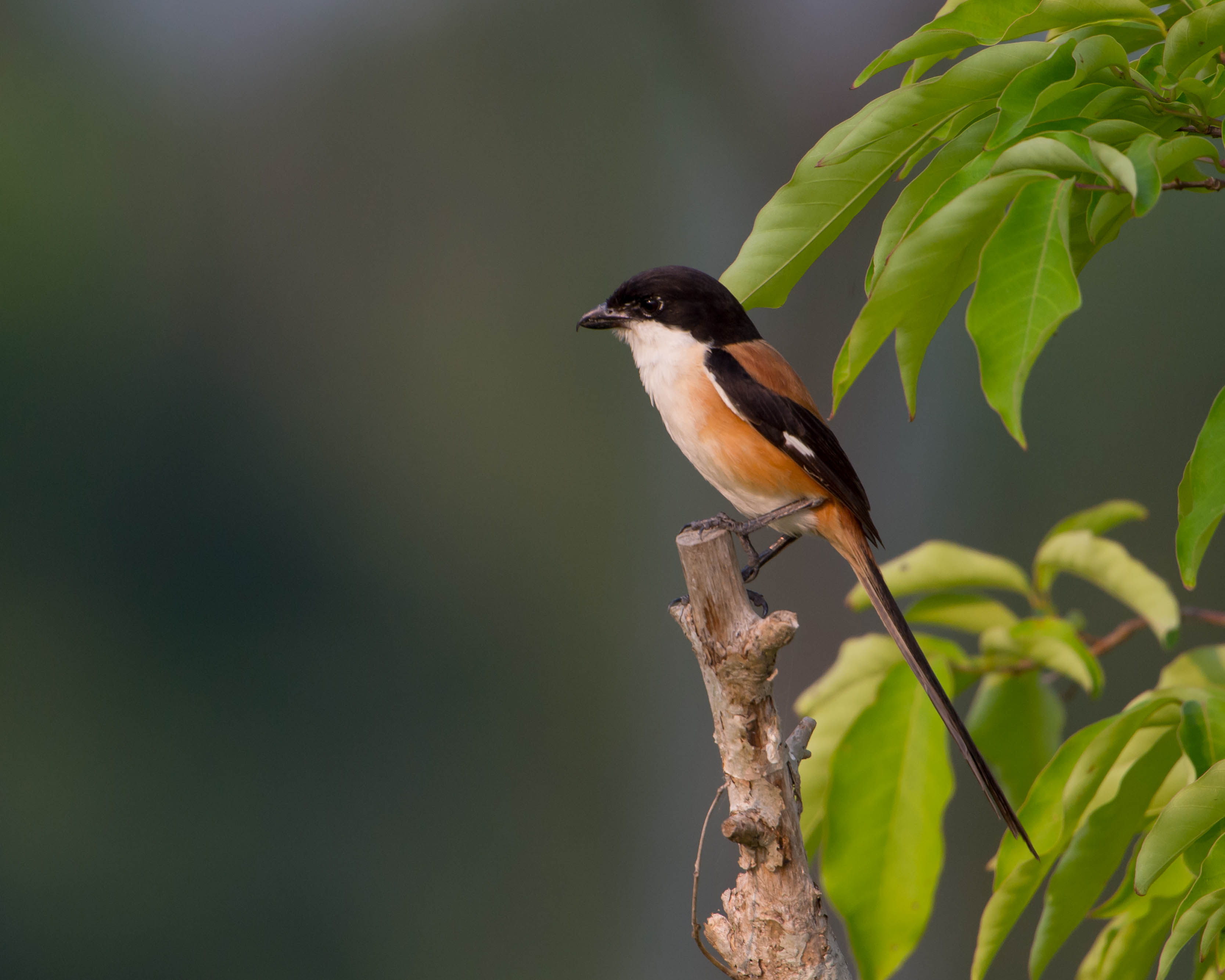 Long-tailed Shrike (Lanius schach) at Bueng Boraphet, Thailand